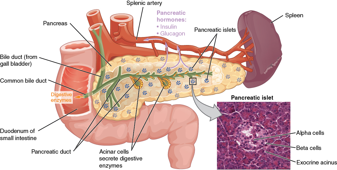 Illustration from Anatomy & Physiology, Connexions Web site. Jun 19, 2013.